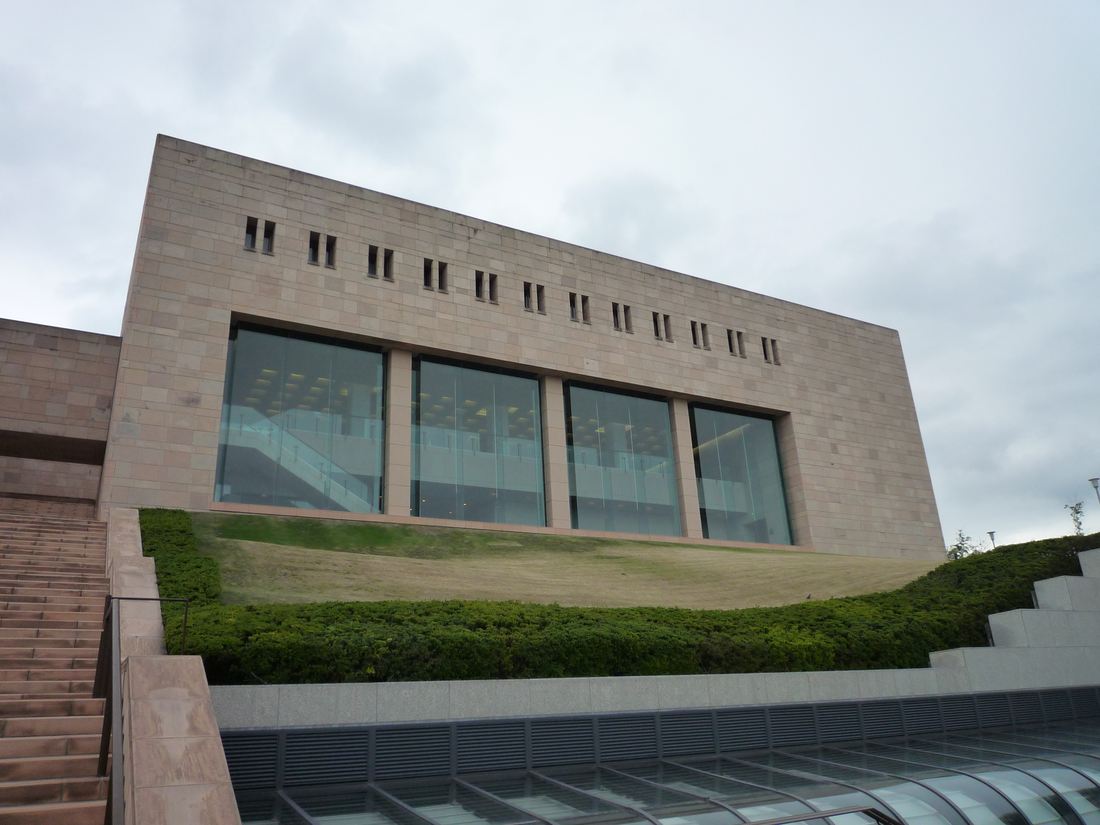 MOA Museum of Art, at Atami, Shizuoka Pref. Japan.